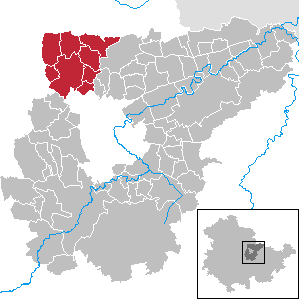 VG Berlstedt in Thuringia - District Weimarer Land